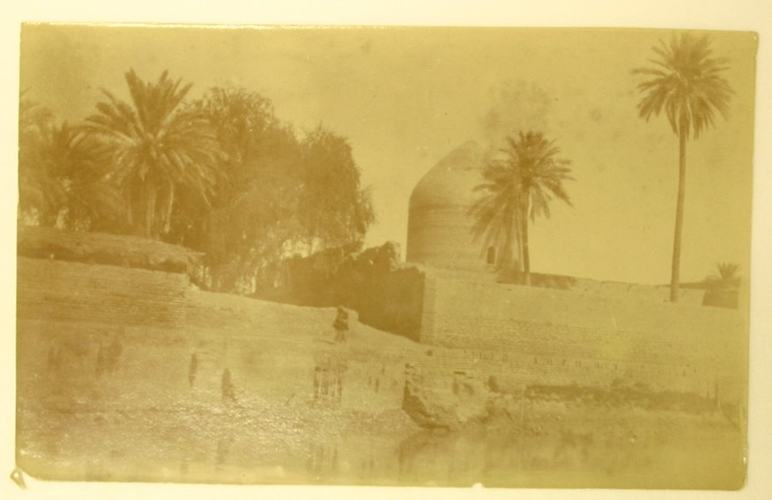 Ezra's Tomb or the Tomb of Ezra (Arabic: العزير Al-ʻUzair, Al-ʻUzayr, Al-Azair) is a location in Iraq on the western shore of the Tigris that was popularly believed to be the burial place of the biblical figure Ezra. Al-ʻUzair is the present name of the settlement that has grown up around the tomb